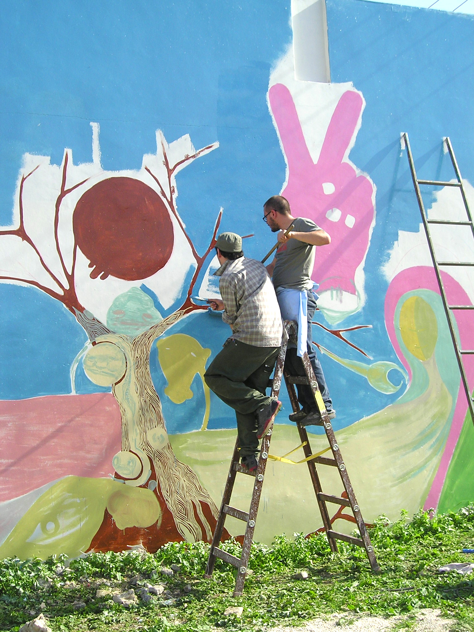 Service Civil International workcamp in Jenin, Palestine, 2005